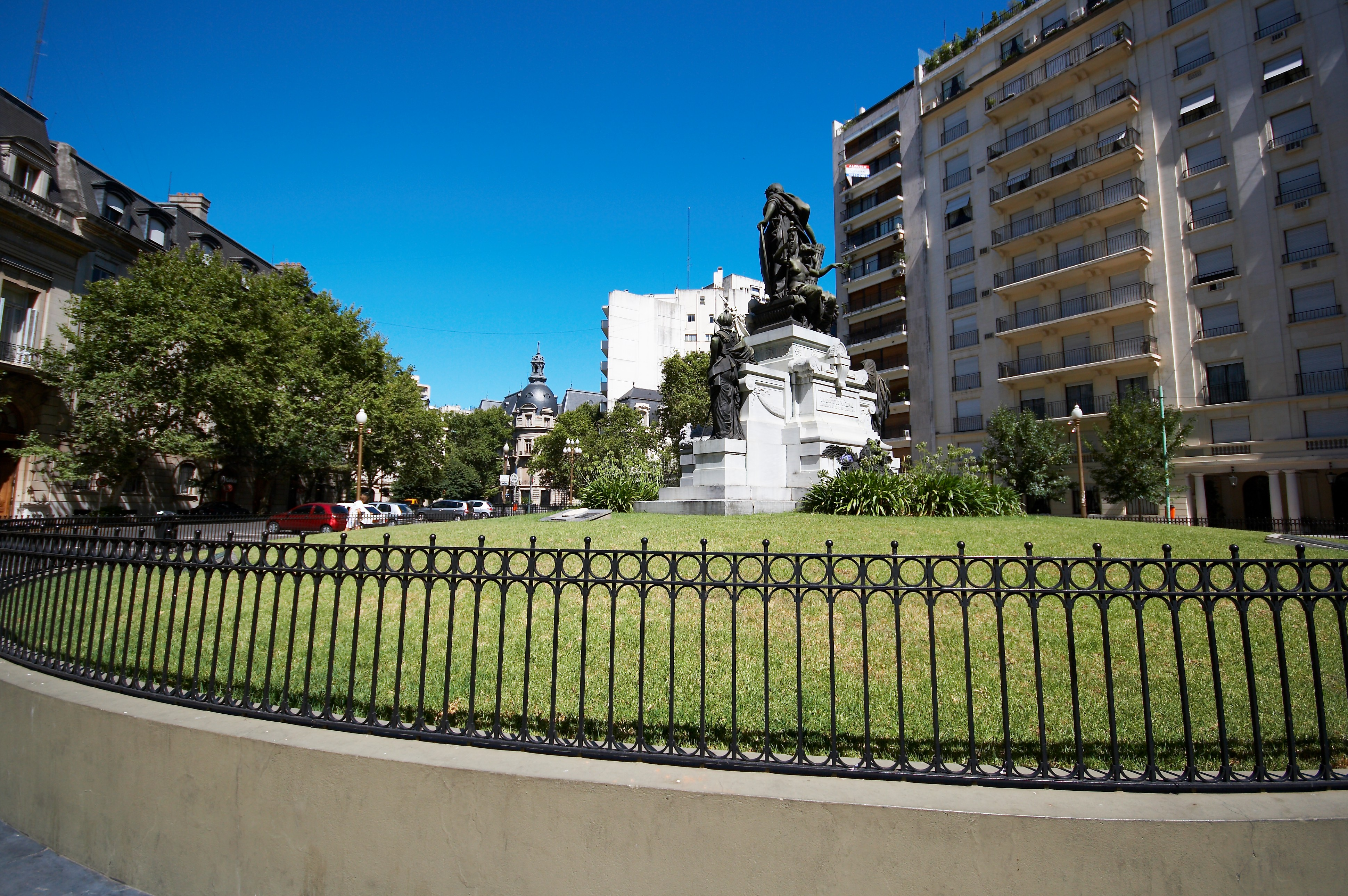 Alvear avenue, Buenos Aires, Argentina.